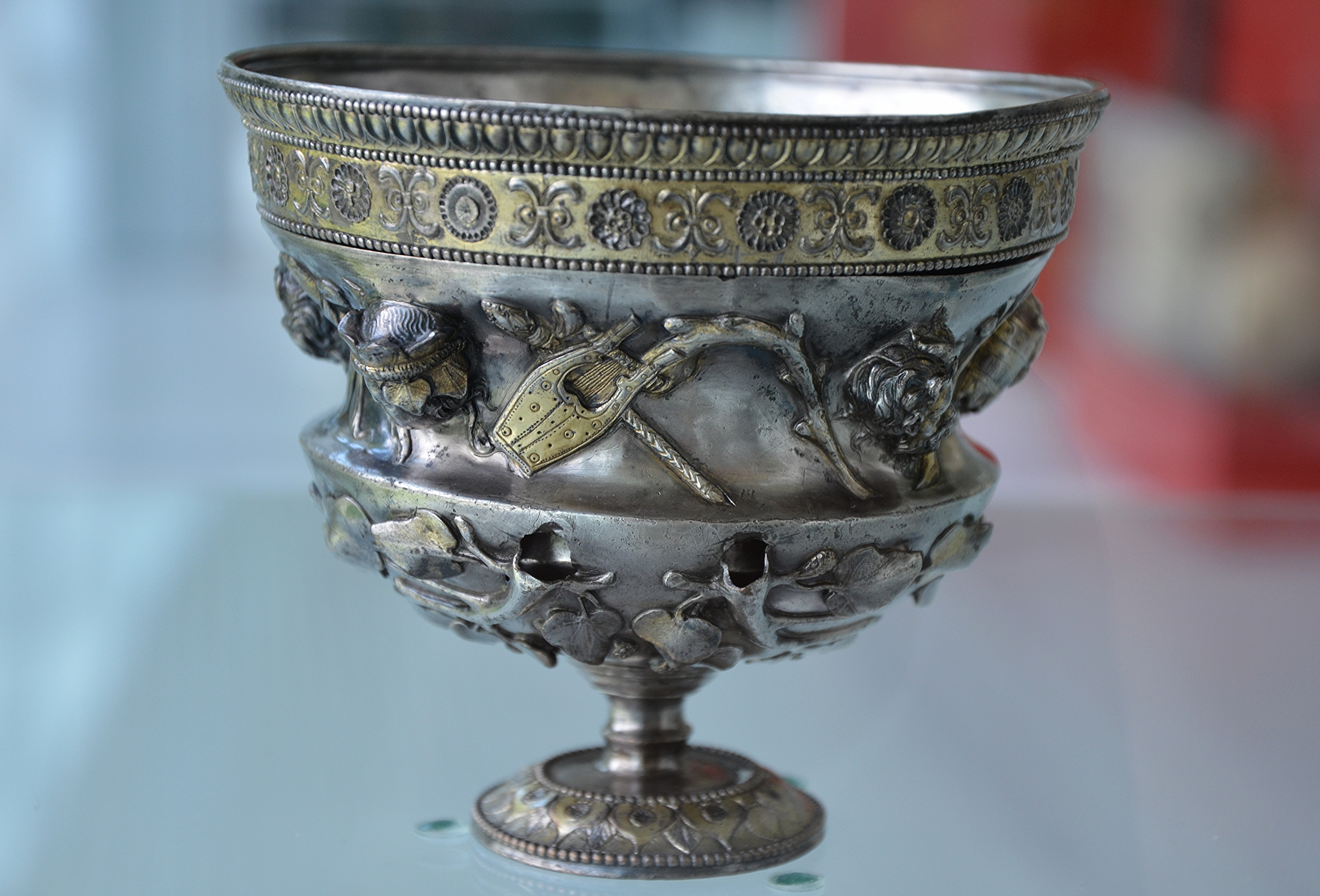 Roman silver cup decorated with stylized flower, leaf motifs and mythological figures depicting the world of the god of wine Bacchus, Museum het Valkhof, Nijmegen (Netherlands)